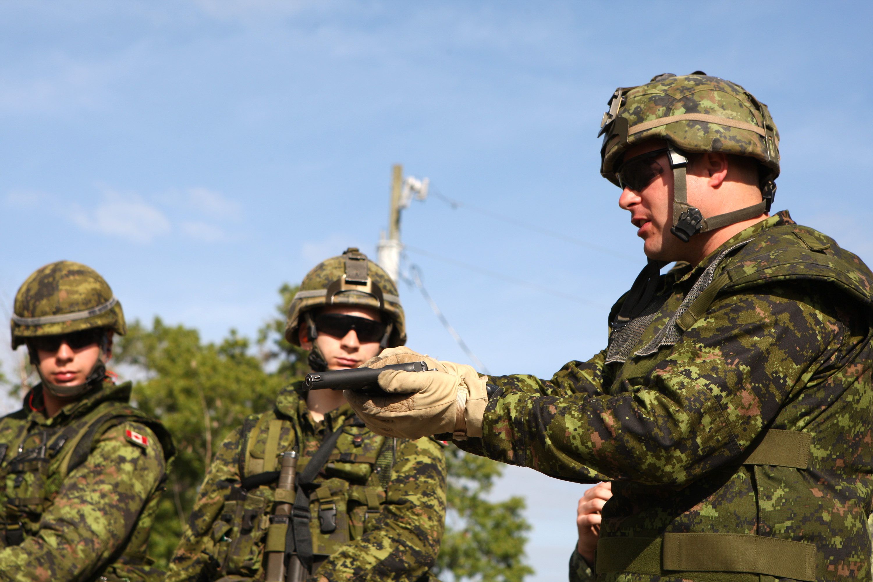 Canadian soldiers of Alpha Company, 3rd Battalion, Royal 22e Régiment, Canadian Army inspect their weapons prior to participating in lane-training during a training evolution on Camp Blanding, Fla., April 18, 2009, in support of Partnership of the Americas 2009. U.S. Marines with 24th Marine Regiment are training with service members from Brazil, Chile, Colombia, Mexico, Peru, Uruguay and Canada in support of the multinational and multiservice exercise designed to enhance regional security and interoperability with maritime partners.